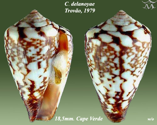 Conus delanoyae2